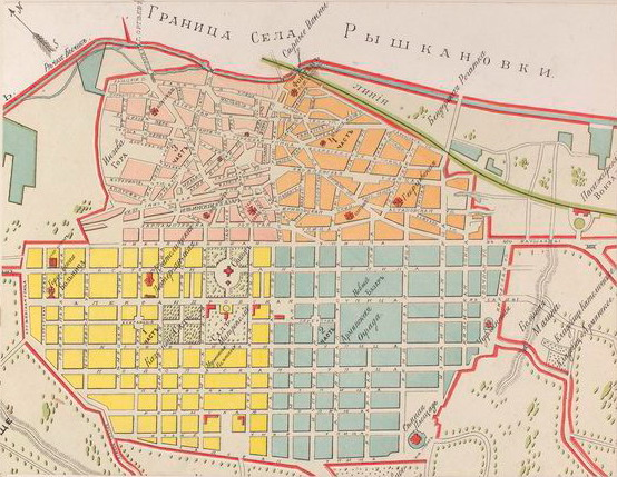 Boundary of Ryshkanovka, Kishinev, Moldova